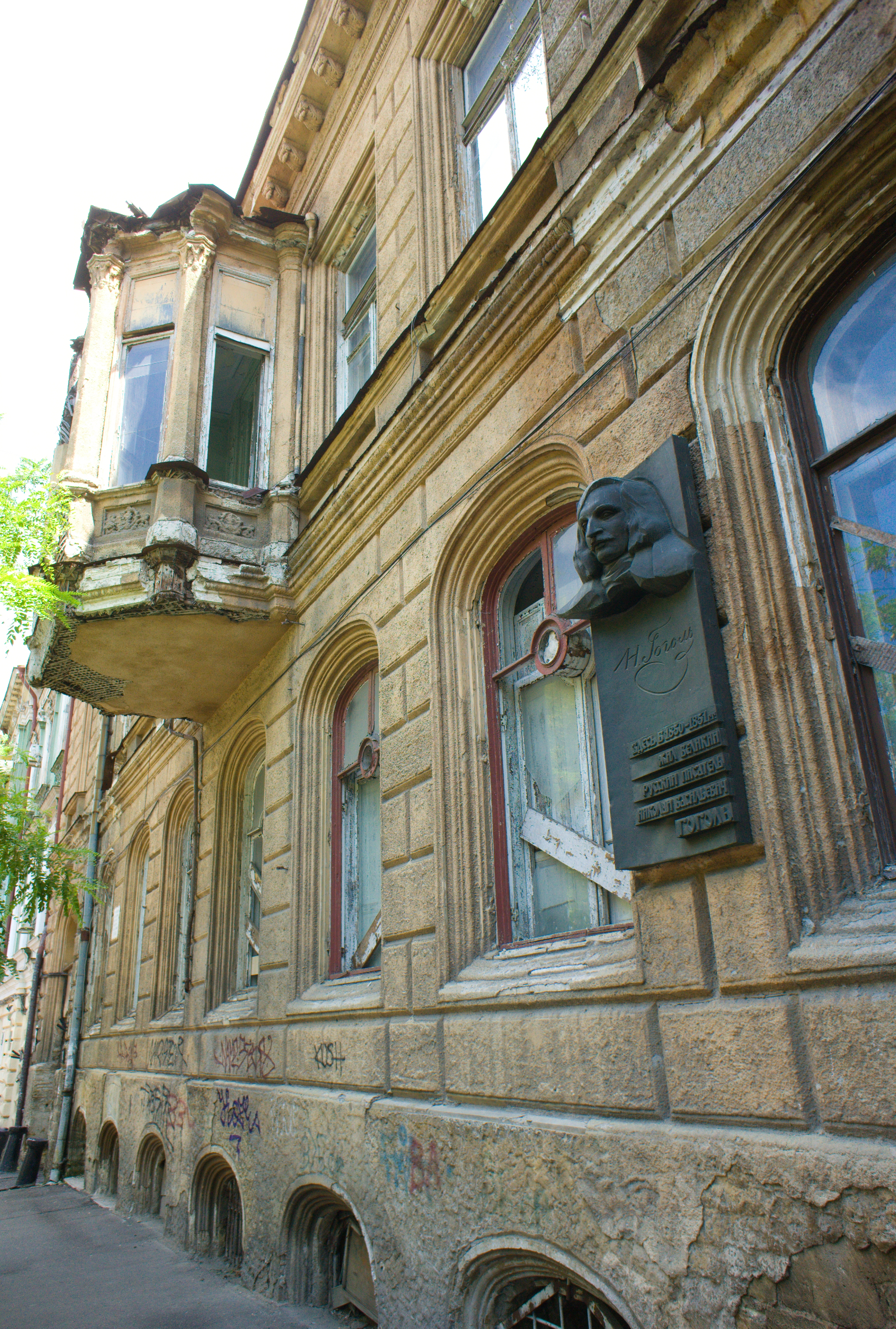 House in Odesa, where Nikoli Gogol lived in 1850-1851 — in Odessa. Today at 11 Gogol Street.